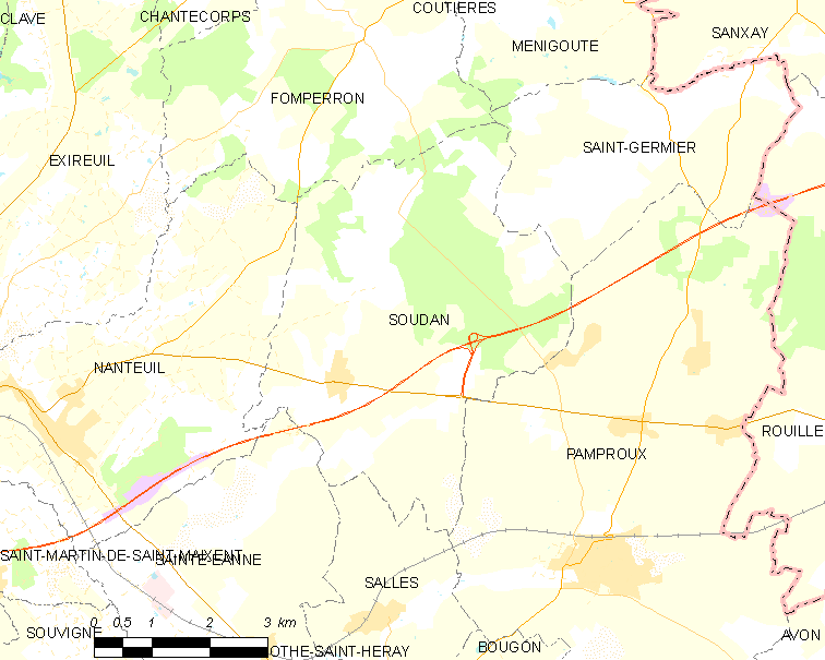 Map of French municipality Soudan